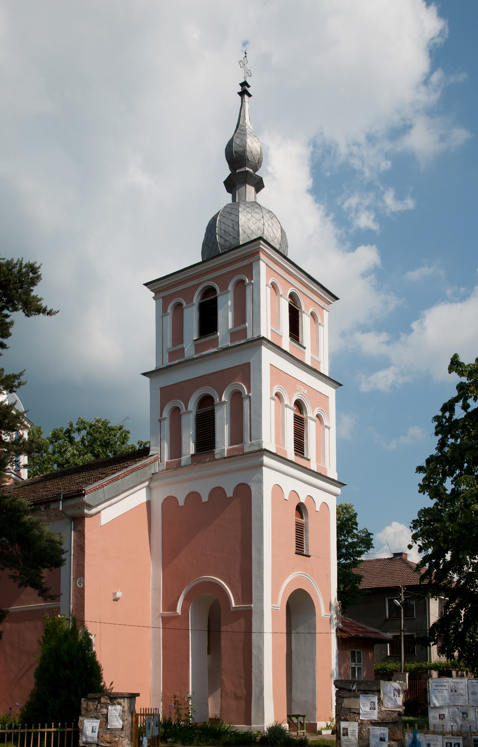 The belfry of the Ascension of Jesus church in the town of Botevgrad, Bulgaria.